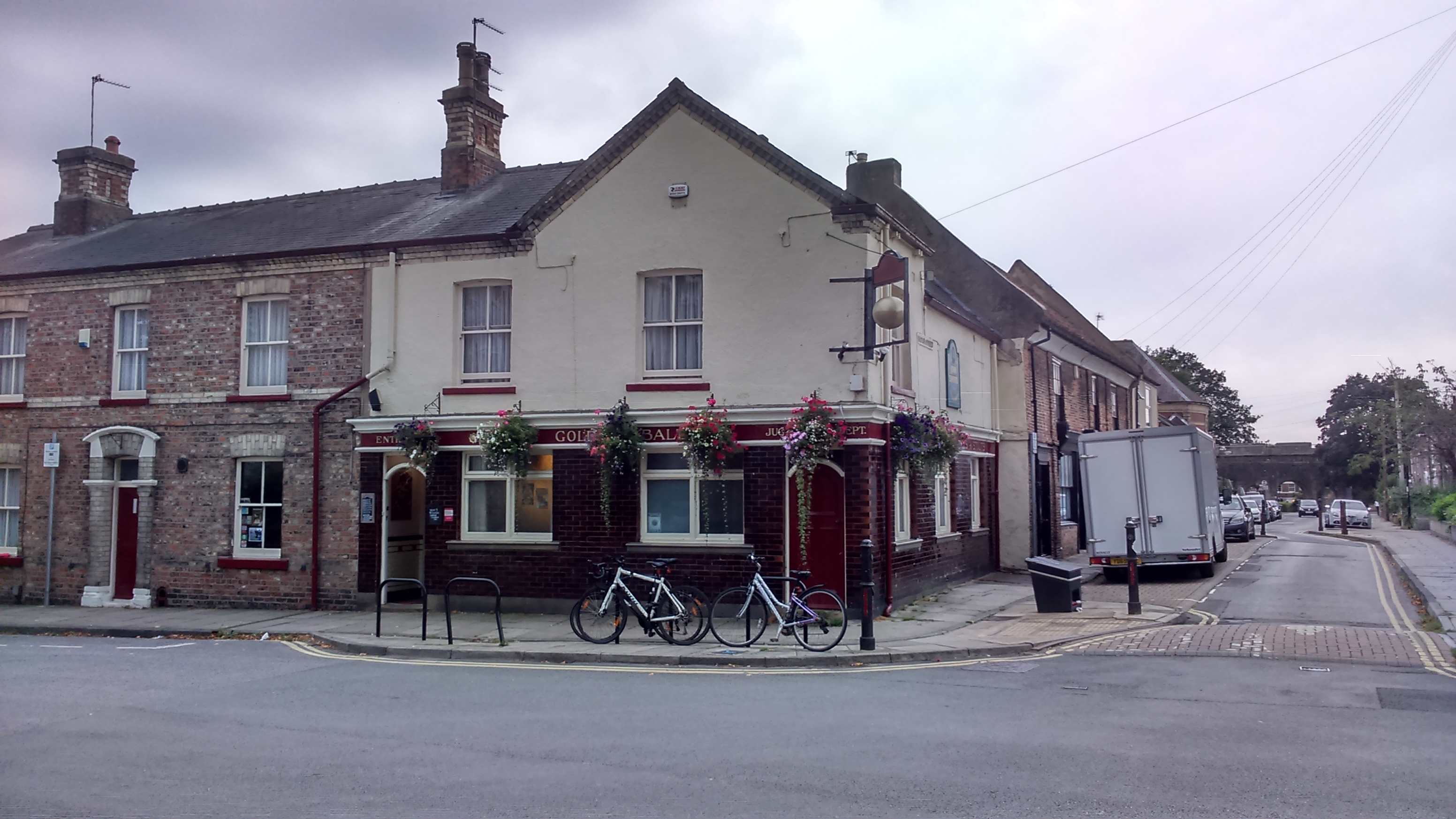 Golden Ball pub, at the junction of Cromwell Road and Victor Street, in the Bishophill area of York